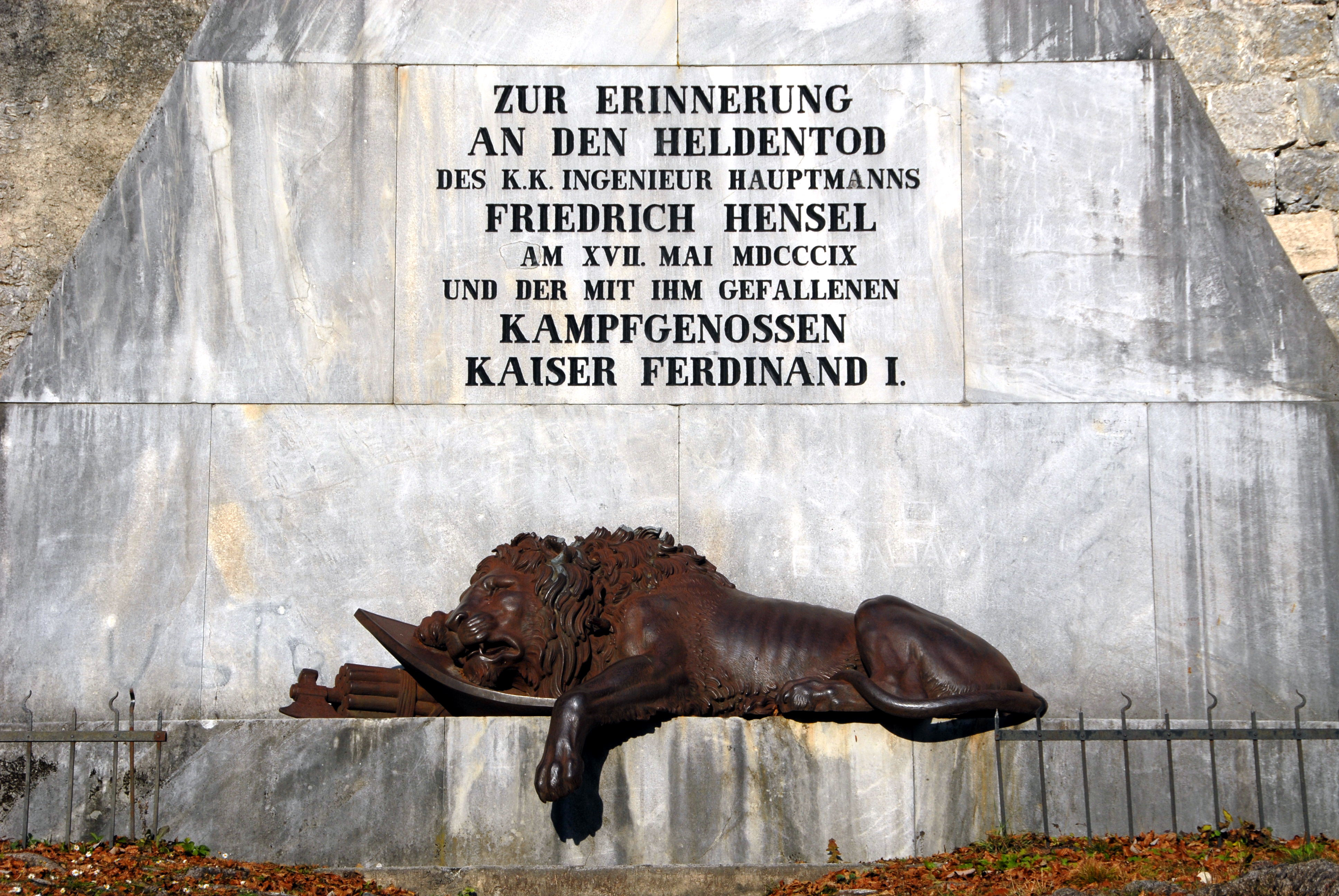 War memorial about the heroic death of Captain Friedrich Hensel und his comrade-in-arms on May 17th, 1809, municipality Malborghetto in Val Canale, region Friuli-Venezia Giulia, Italy, EU